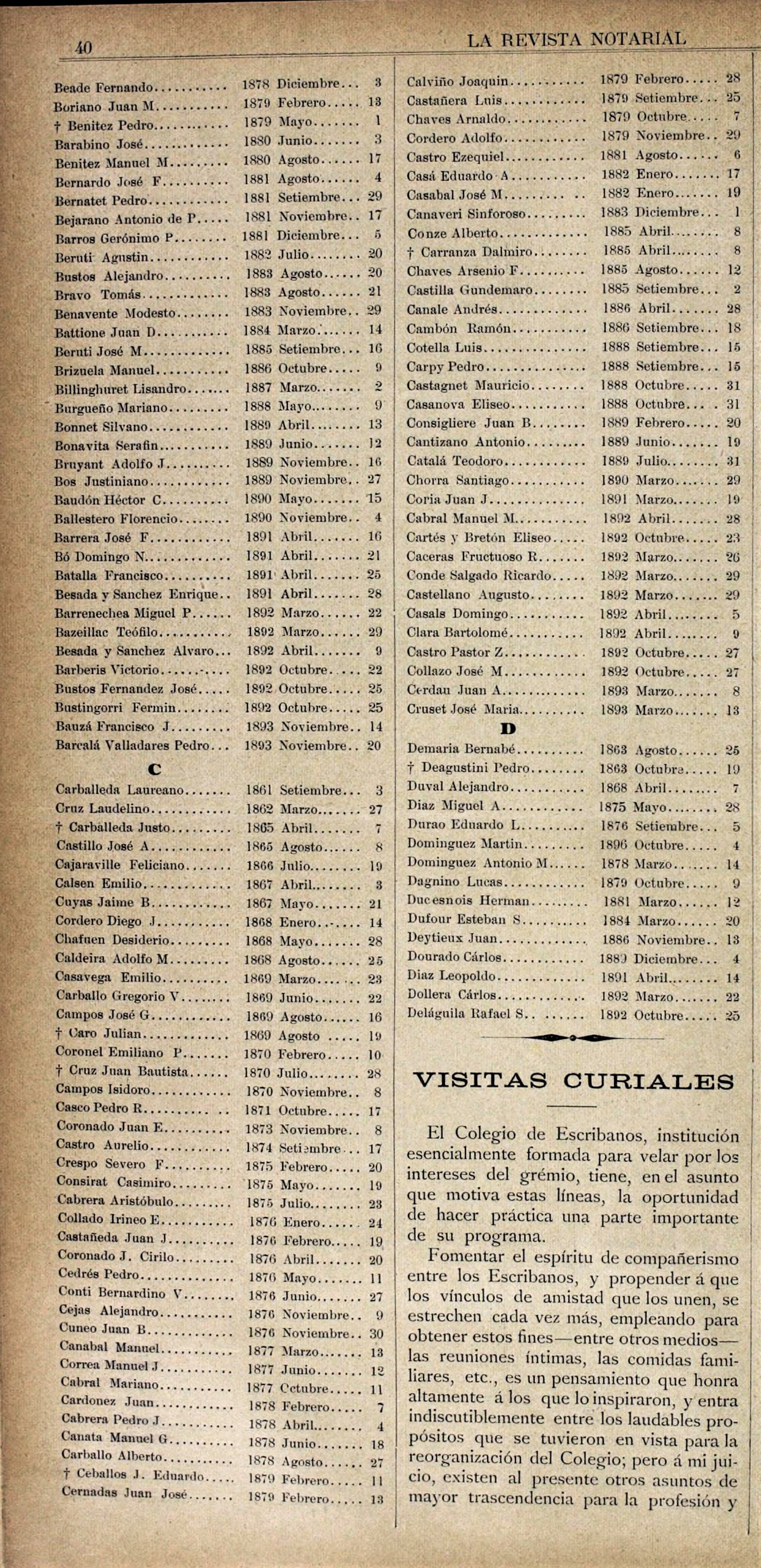 Nomina de graduados del Colegio de Escribanos de la Provincia de Buenos Aires (Sinforoso Canavery).